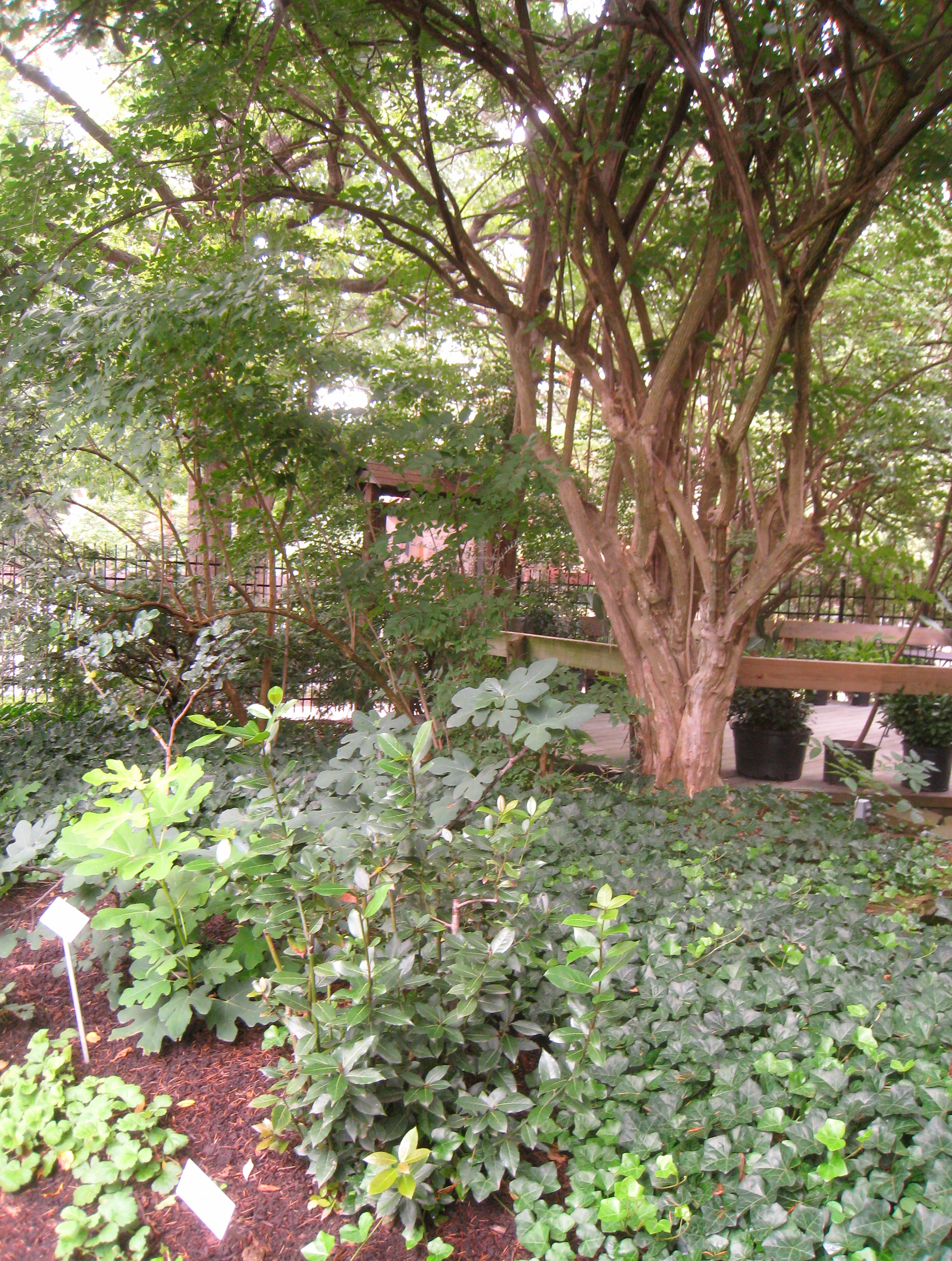 Rodef Shalom Biblical Botanical Garden, Pittsburgh, Pennsylvania, USA.